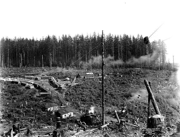 Caption on image: 126K. Logs arriving at spar tree showing logging camp. c1924 for Darius Kinsey. Subjects (LCTGM): Logs; Railroad tracks--Washington (State) Subjects (LCSH): Logging--Washington (State); Logging railroads--Washington (State); Lumber camps--Washington (State); Spartrees--Washington (State); Steam donkeys--Washington (State)